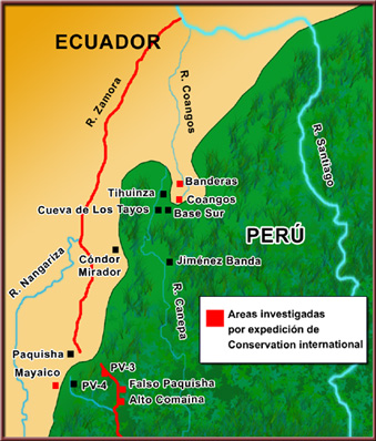 War zone in the fronteer between Peru - Ecuador, in Cenepa River, January February 1995